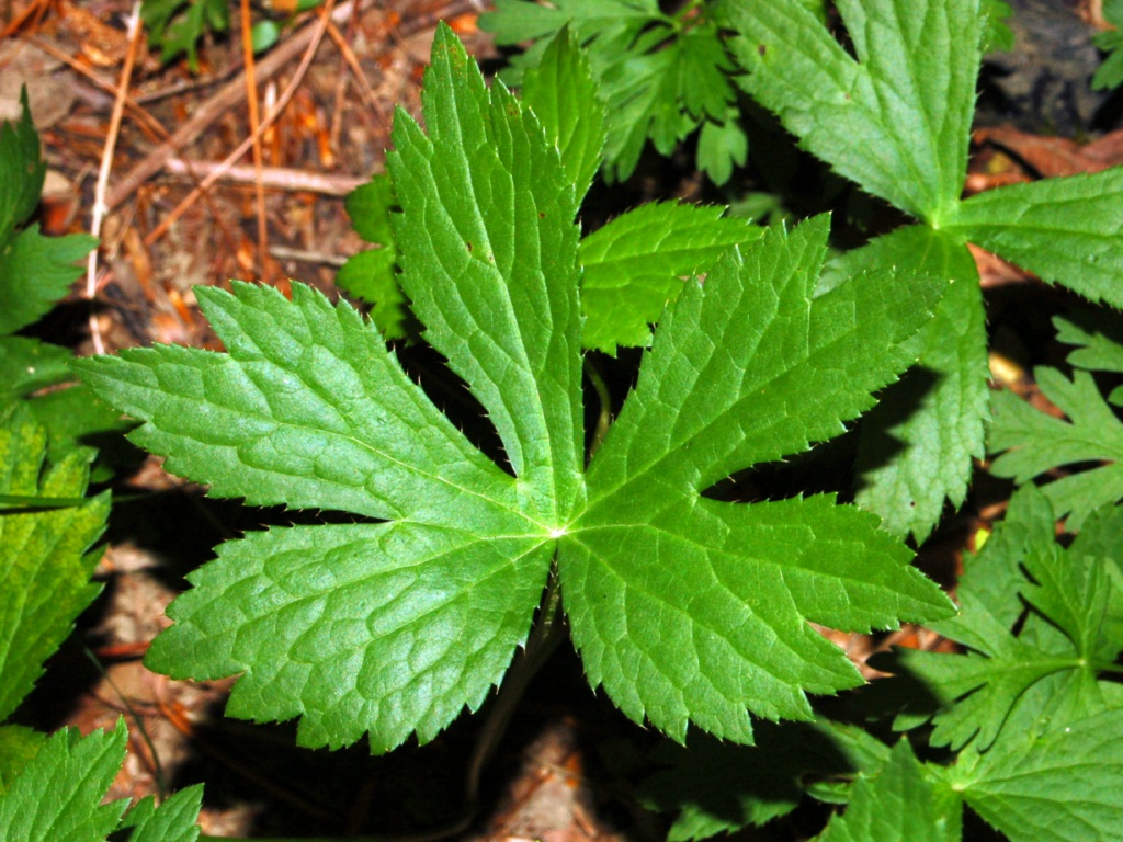 Astrantia major - Gorzente, Genova, Italy